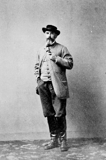 Matthew Baillie Begbie, image from the British Columbia Archives call number A-08953 [1].